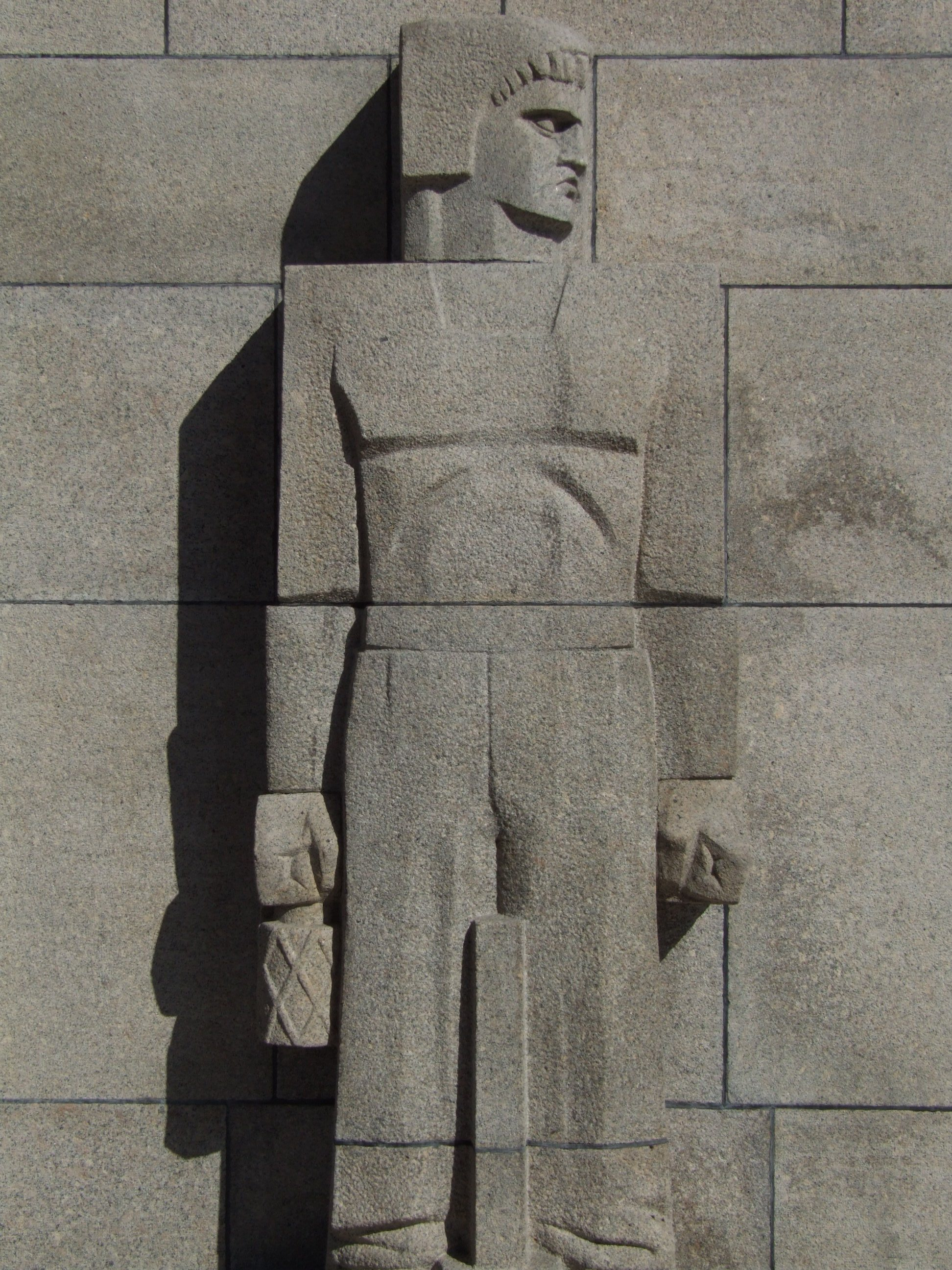 Sculpture in Góra Świętej Anny (St. Annaberg, Anaberg), Upper Silesia. Author: Xavery Dunikowski